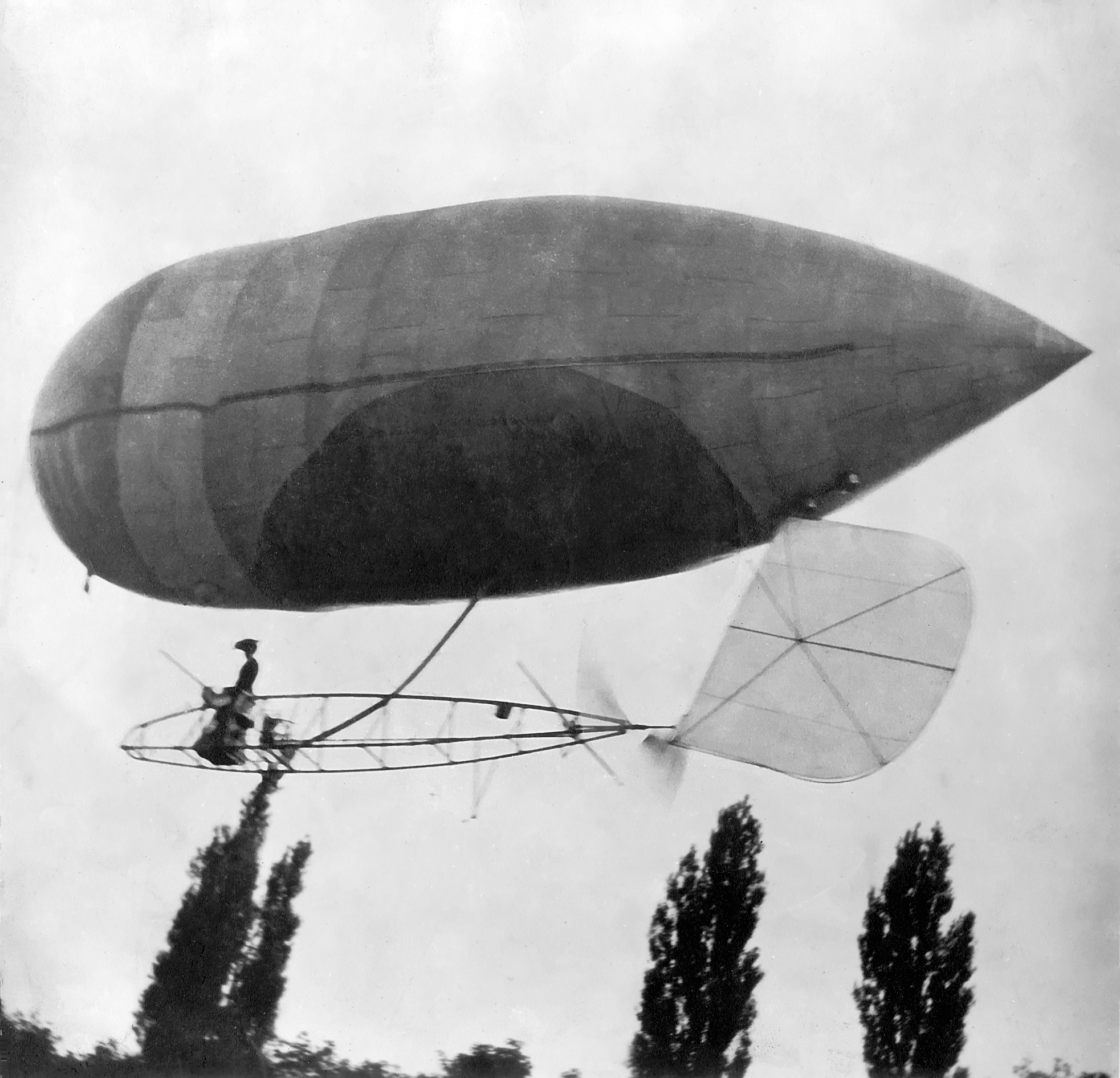 Aida D'Acosta Breckinridge piloted Alberto Santos-Dumont's airship N° 9, La Baladeuse in 1903.